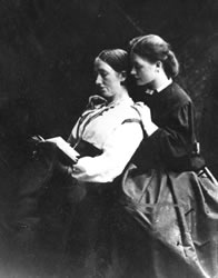 Ellen Terry (right), with her mother, Sarah, née Ballard.